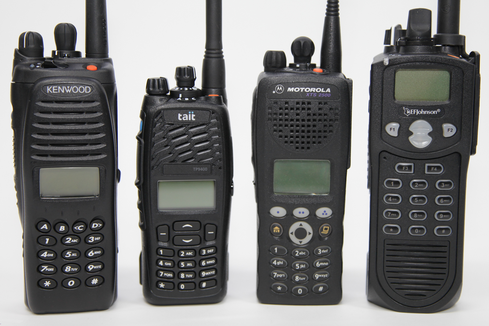 P25-compliant portable radios from a variety of manufacturers